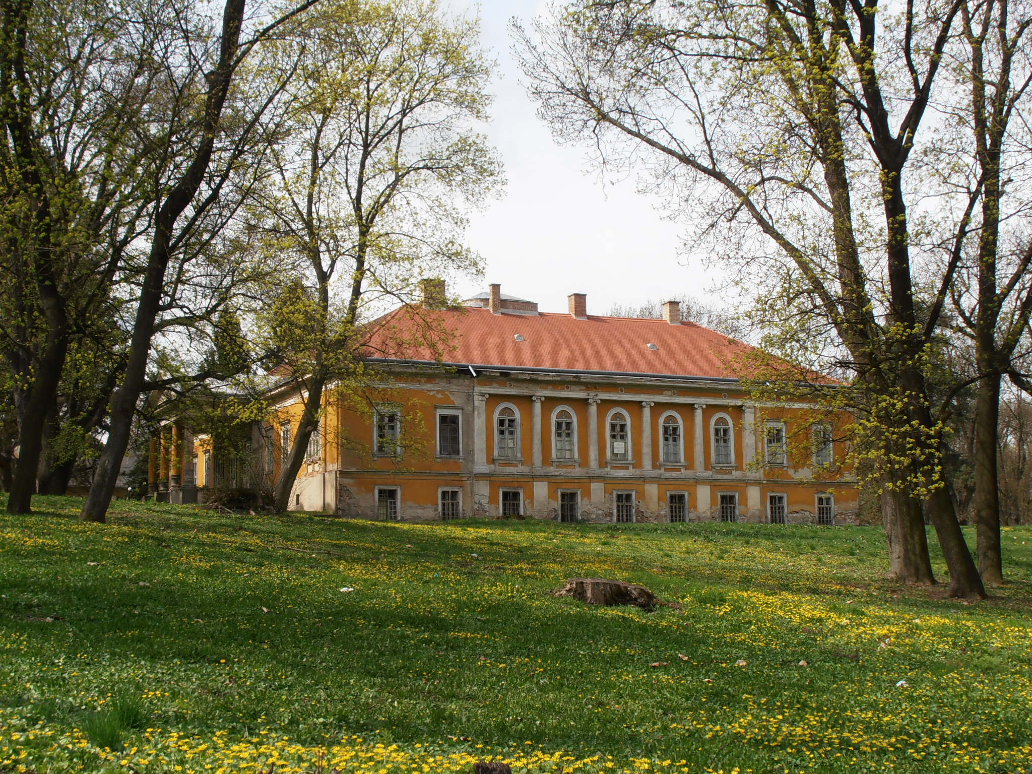 Serényi mansion, Putnok, Hungary Serényi-kastély, Putnok